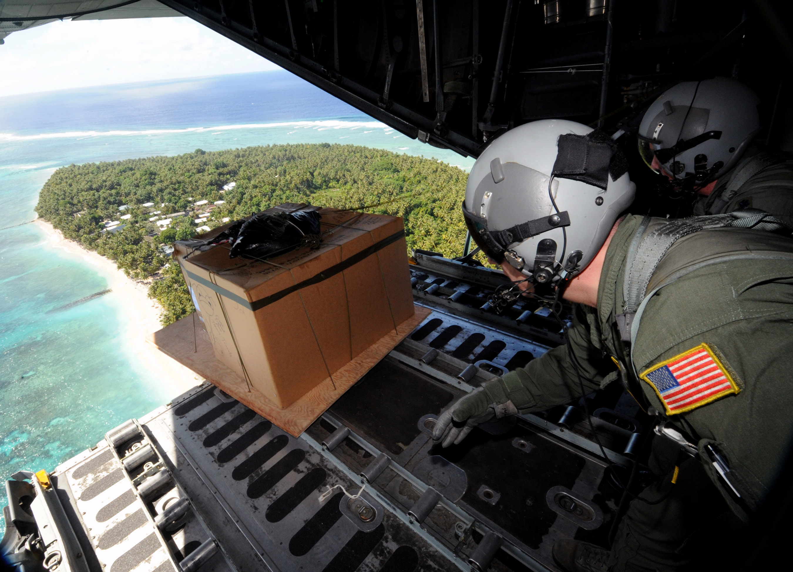 Operation Christmas Drop 2008: Tech. Sgt. Heath Bahyi and Chief Master Sgt. Michael Sundberg push out a boxed pallet of donated goods from a C-130 Hercules during Operation Christmas Drop Dec. 19 over the remote Island of Yap. Airmen today continue the tradition of delivering supplies to remote islands of the Commonwealth of the Northern Marianas Islands, Yap, Palau, Chuuk and Pohnpei. In all, more than 180 boxes were built for the humanitarian mission, making 2008 one of the largest drops in Operation Christmas Drop's 57-year history. Sergeant Bahyi and Chief Sundberg are loadmasters from the 36th Airlift Squadron from Yokota Air Base, Japan.